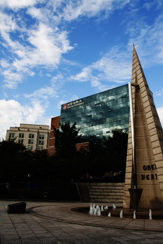 Sogang University